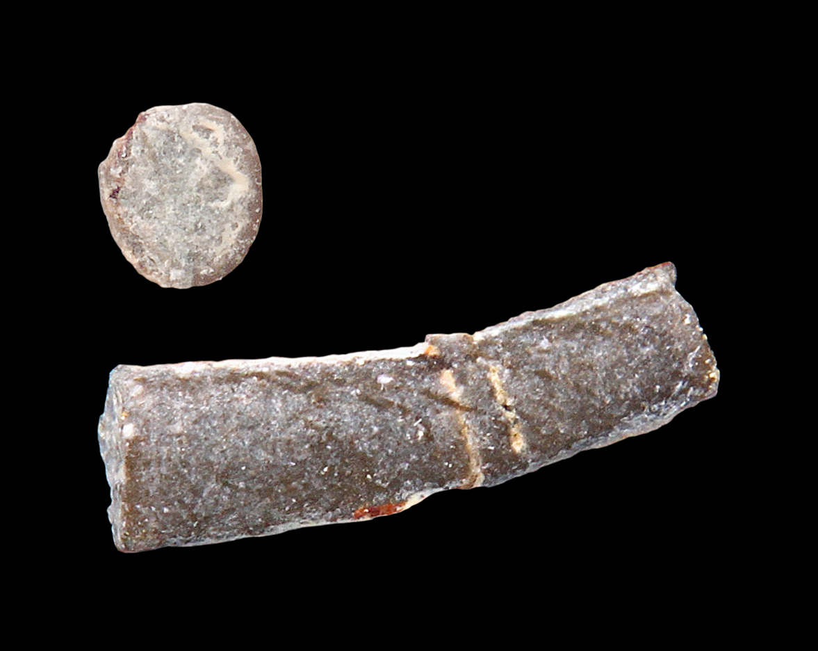 Length 0.35 cm; Middle Triassic, Upper Muschelkalk; South of Bruchsal (49°6′10.05″N 8°34′27.45″E / 49.1027917°N 8.5742917°E), Germany; Shell of own collection, therefore not geocoded. Lateral and frontal view.